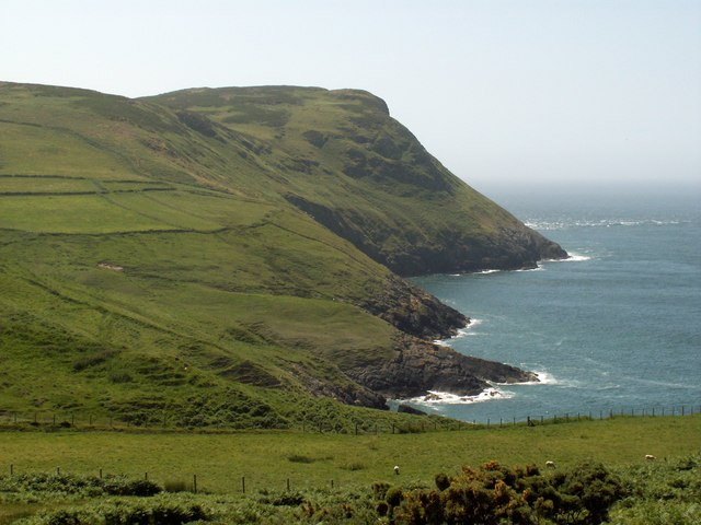 Braich y Pwll Looking across Porth Llanllawen